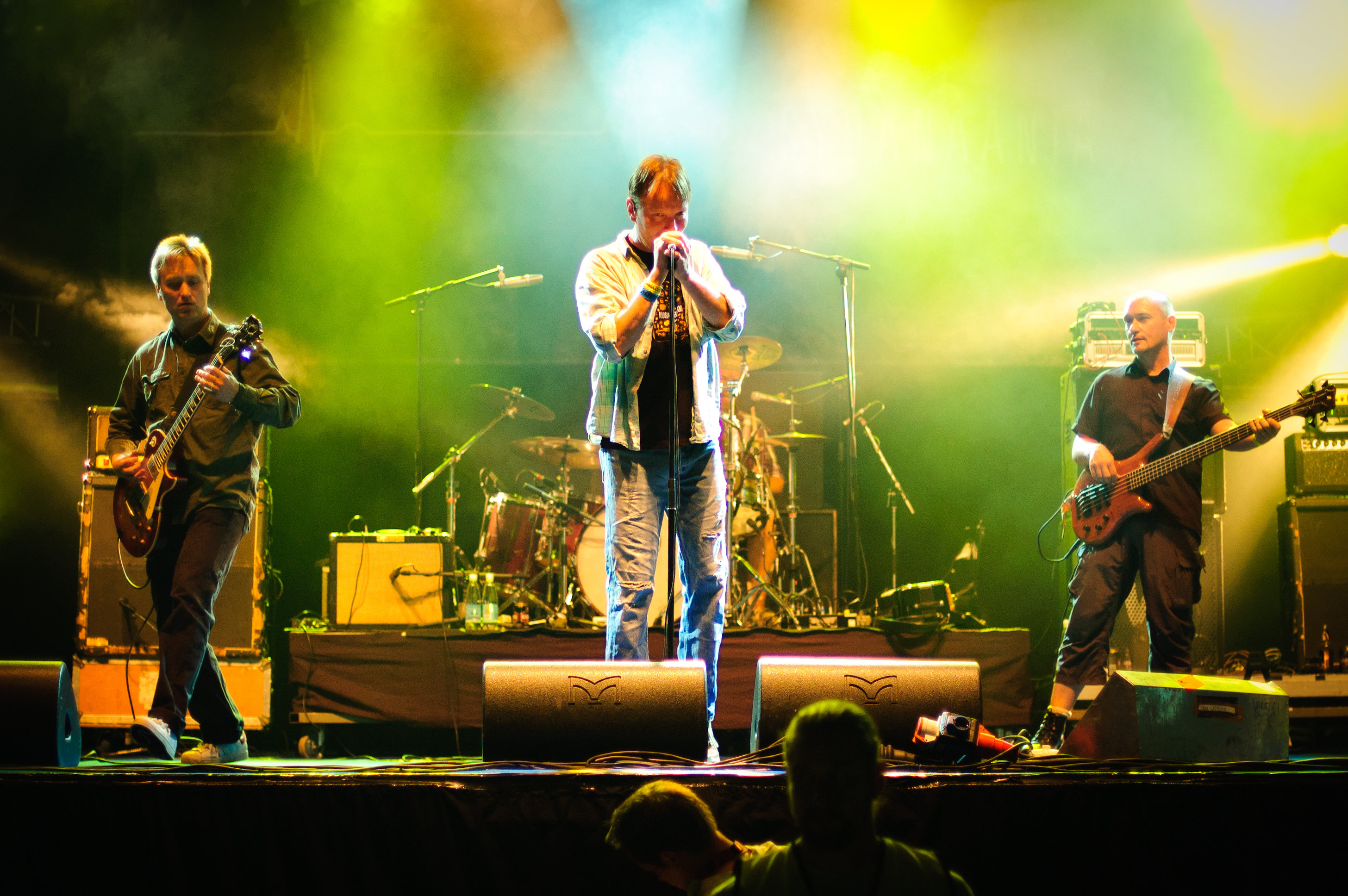 Finnish band Kolmas Nainen performing at the 2010 Ilosaarirock festival in Joensuu, Finland.